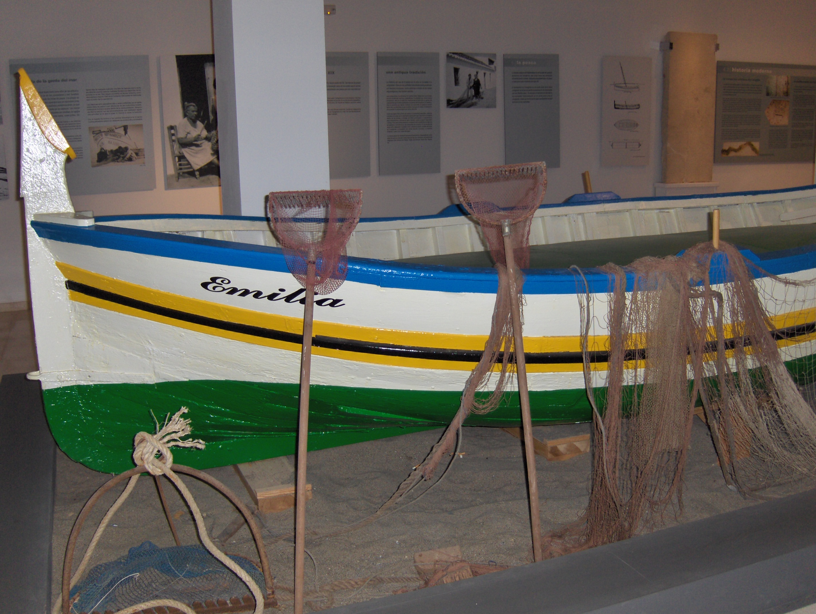 Jábega in Museo de Historia de Fuengirola, Spain.